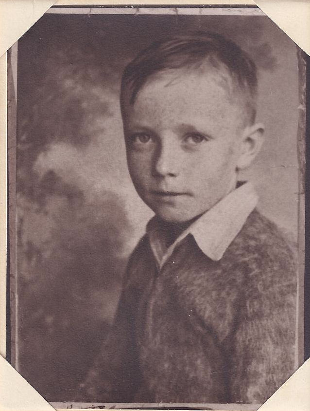 Date unknown